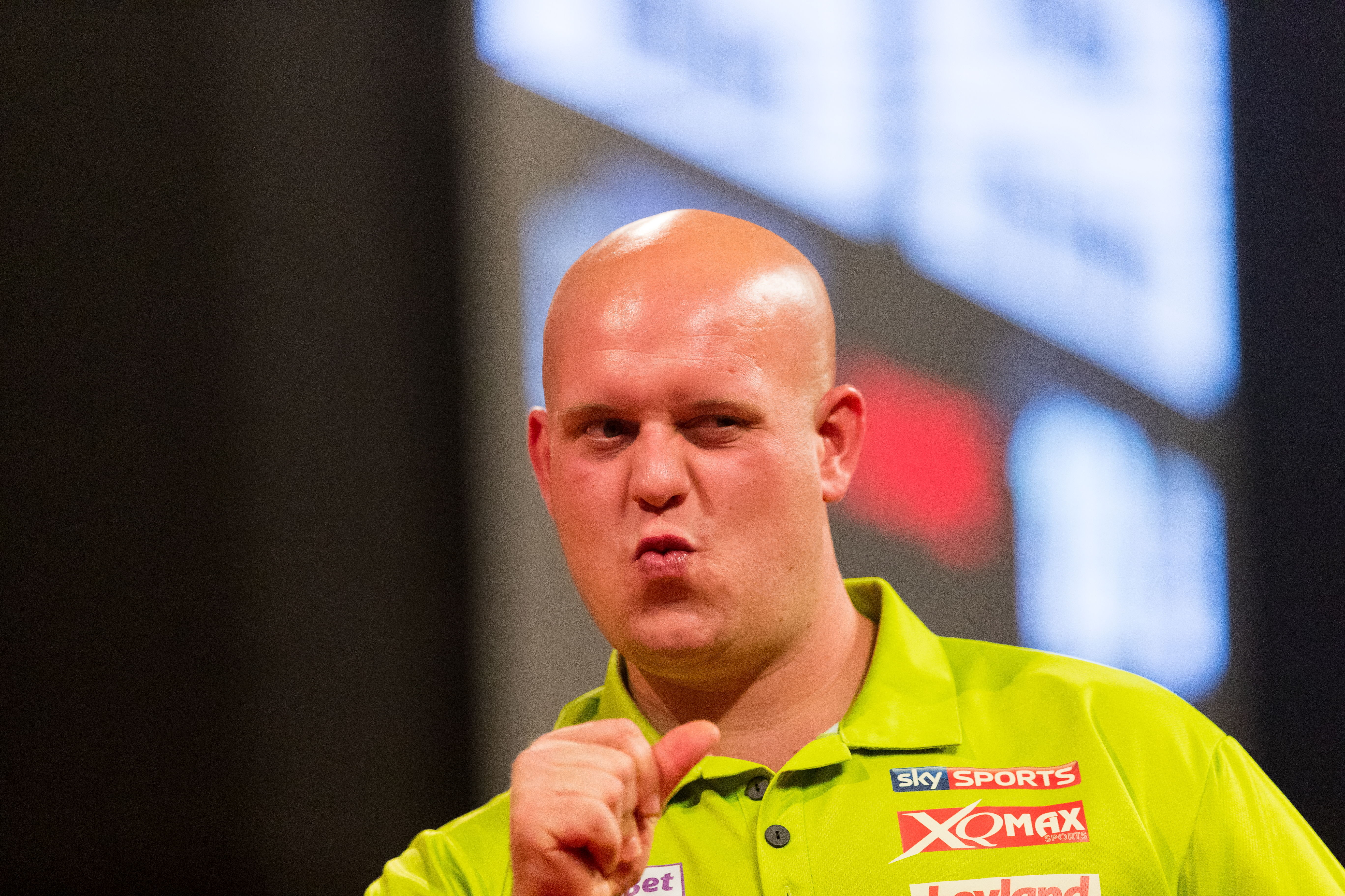 Semifinal: [4] Simon Whitlock (AUS) 0:6 [1] Michael van Gerwen (NED) during Professional Darts Corporation (PDC), German Darts Grand Prix (GDGP) at Maimarkthalle, Mannheim, Baden-Württemberg, Germany on 2017-09-10, Photo: Sven Mandel